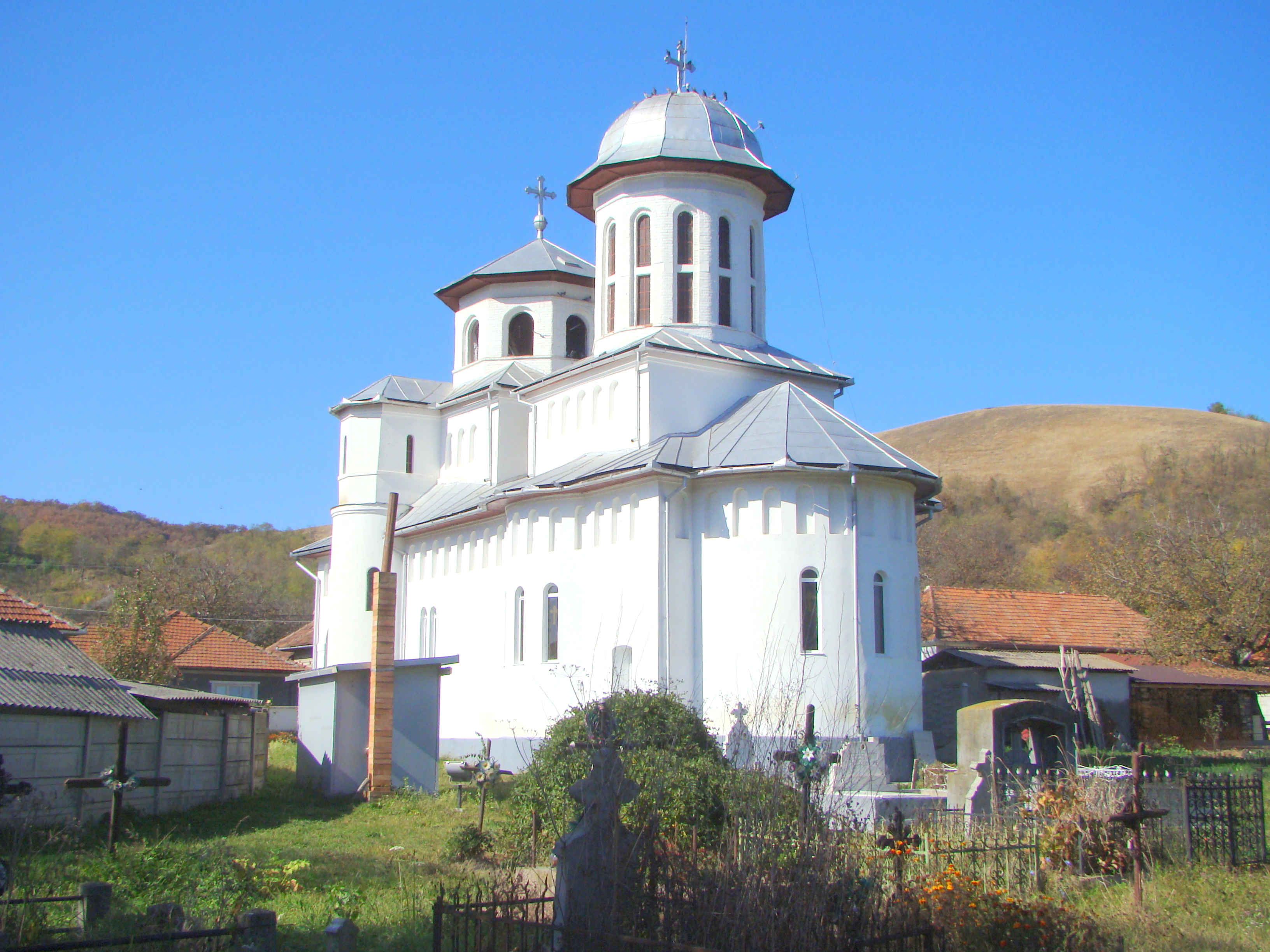 Church of the Annunciation in Subcetate, Hunedoara county, Romania